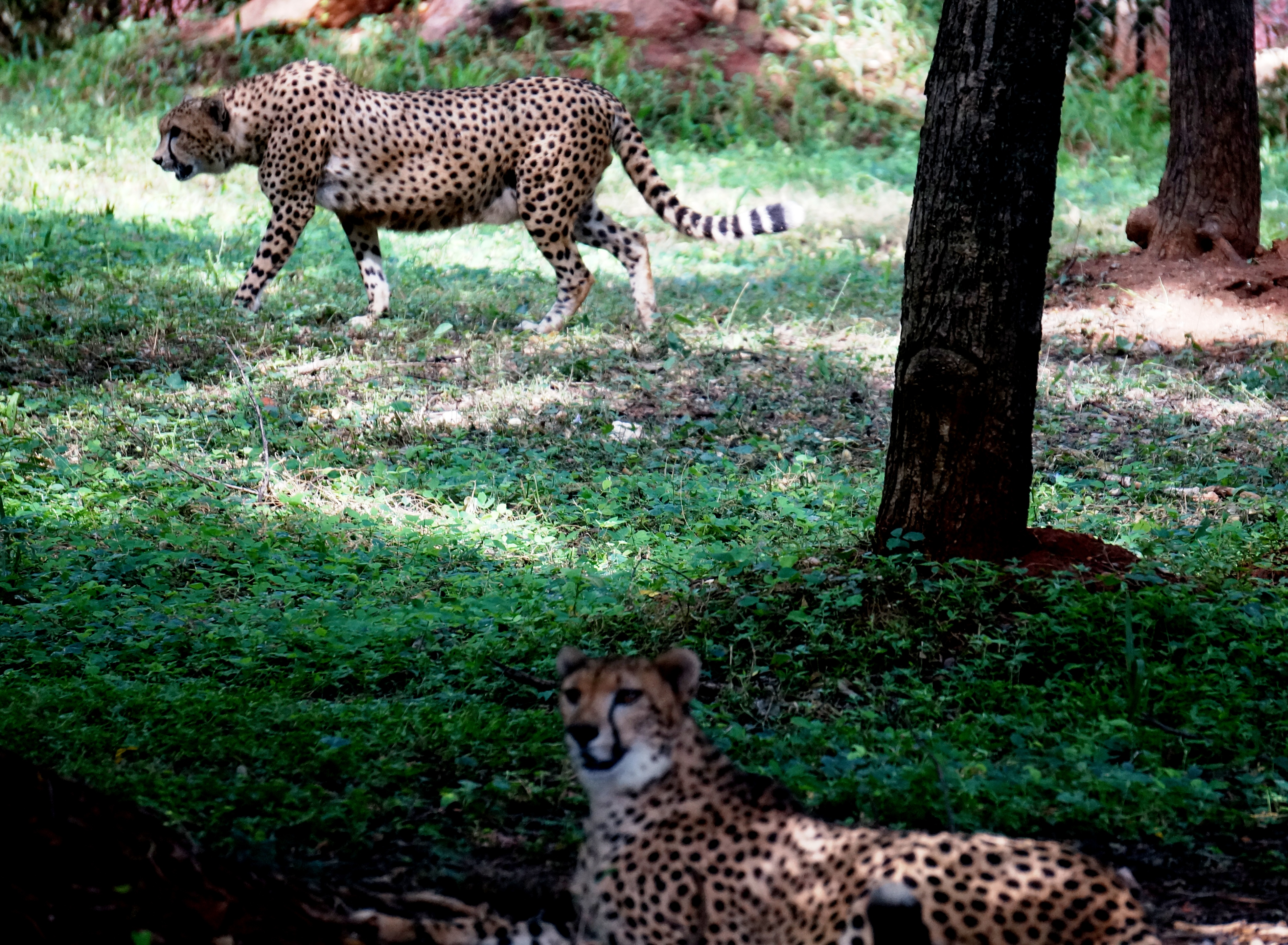 This was taken on one of the warm mornings in 2015. There was a peacock that was irritating these Leopards and they anxiously waited to prey on it..